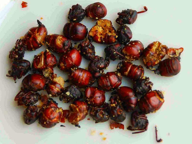 Roasted Ants in Colombia. They are a delicacy in the Colombian highlands